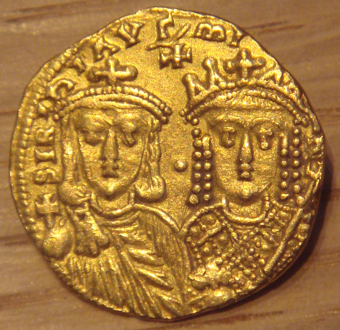 Constantine_VI_and_Irene_780_790_gold_4410mg